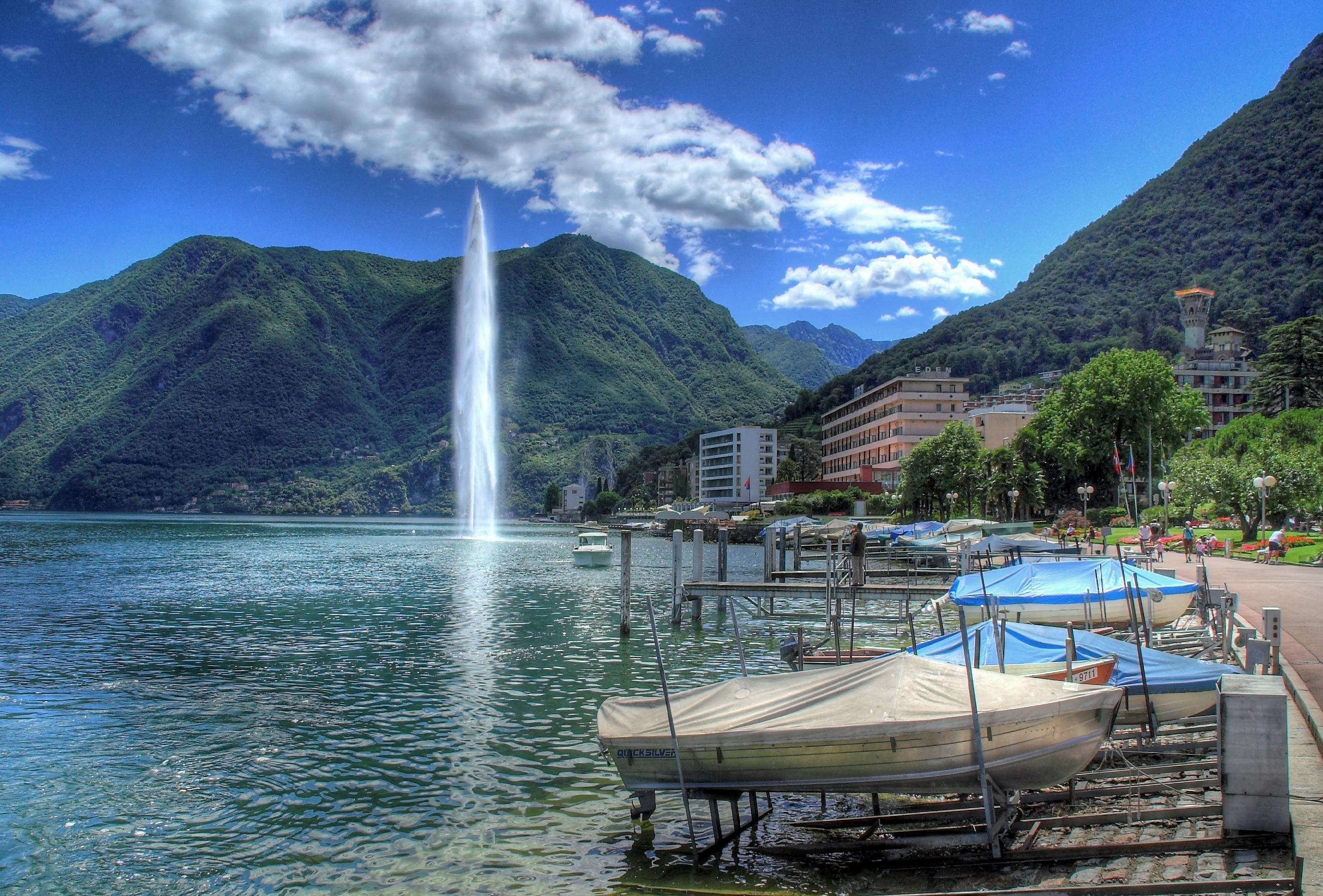 Lugano Paradiso (Ticino), view on Monte Sighignola (behind the fountain).